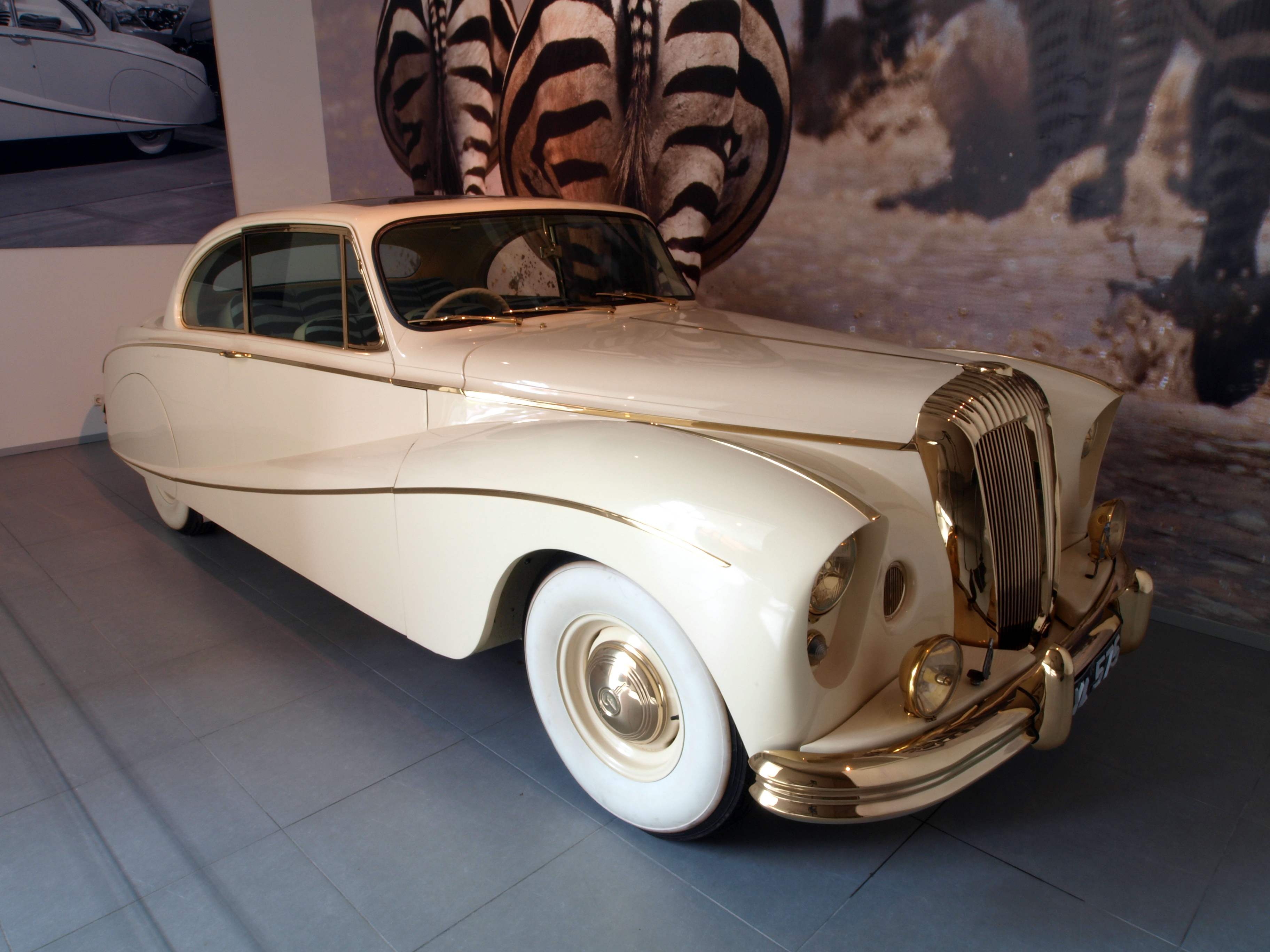 Photographed at the Louwman museum / Louwman Collection, The Netherlands.